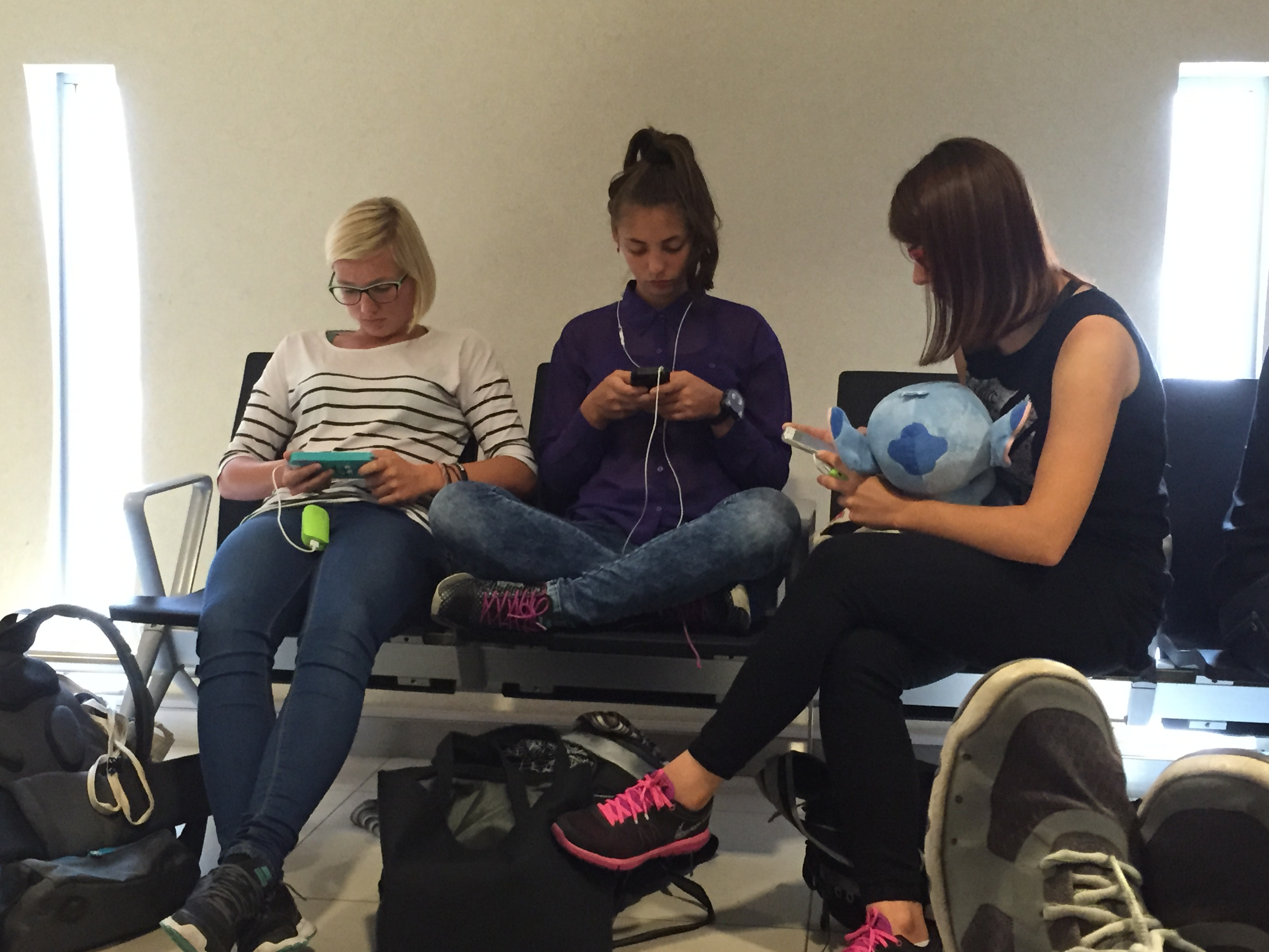 Young people texting on smartphones while waiting at the airport